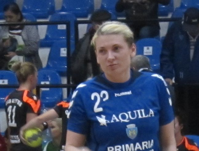 Ukrainian handball player Iryna Shutska wearing the jersey of Romanian team CSM Ploiești in April 2015.